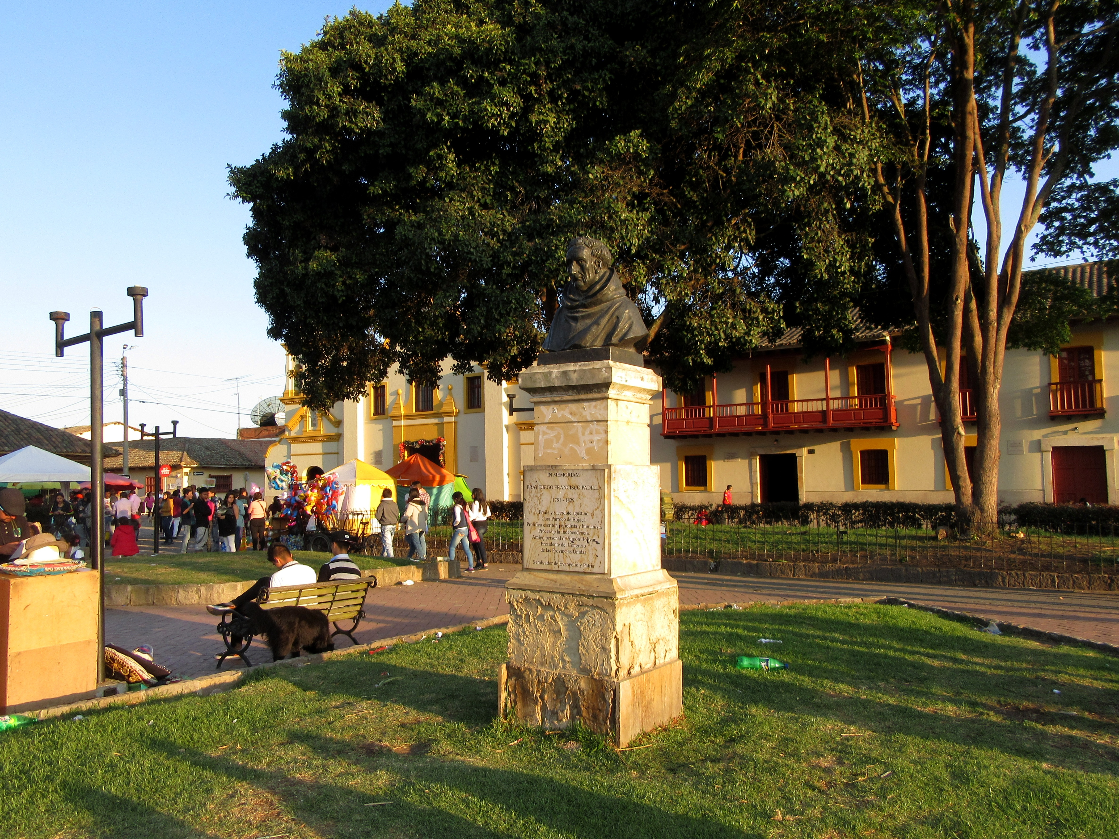 Busto de fray Diego Francisco Pinilla en Bojacá pueblo del departamento de Cundinamarca, en el centro de Colombia.